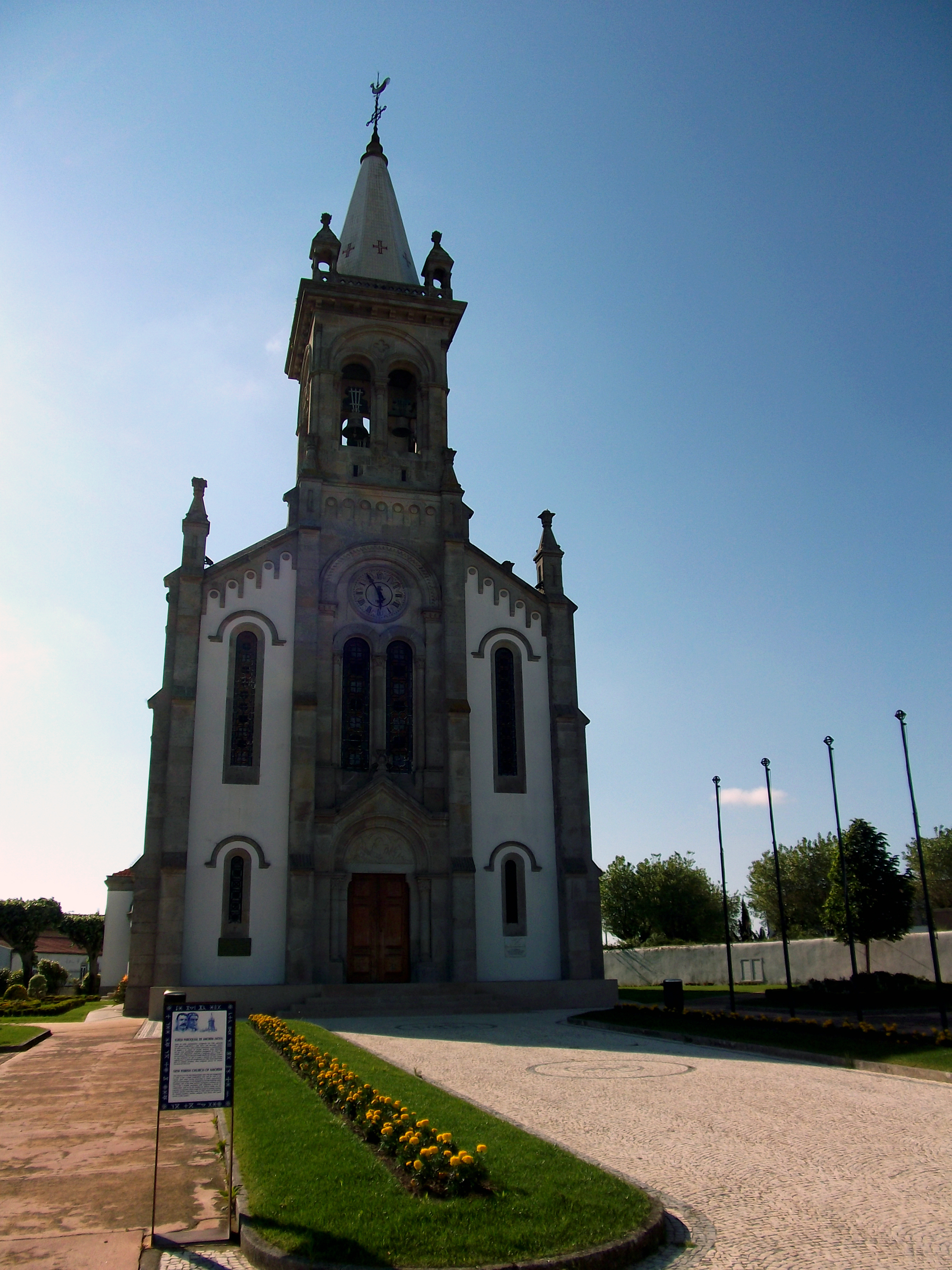 Amorim Parish Church, Póvoa de Varzim, Portugal